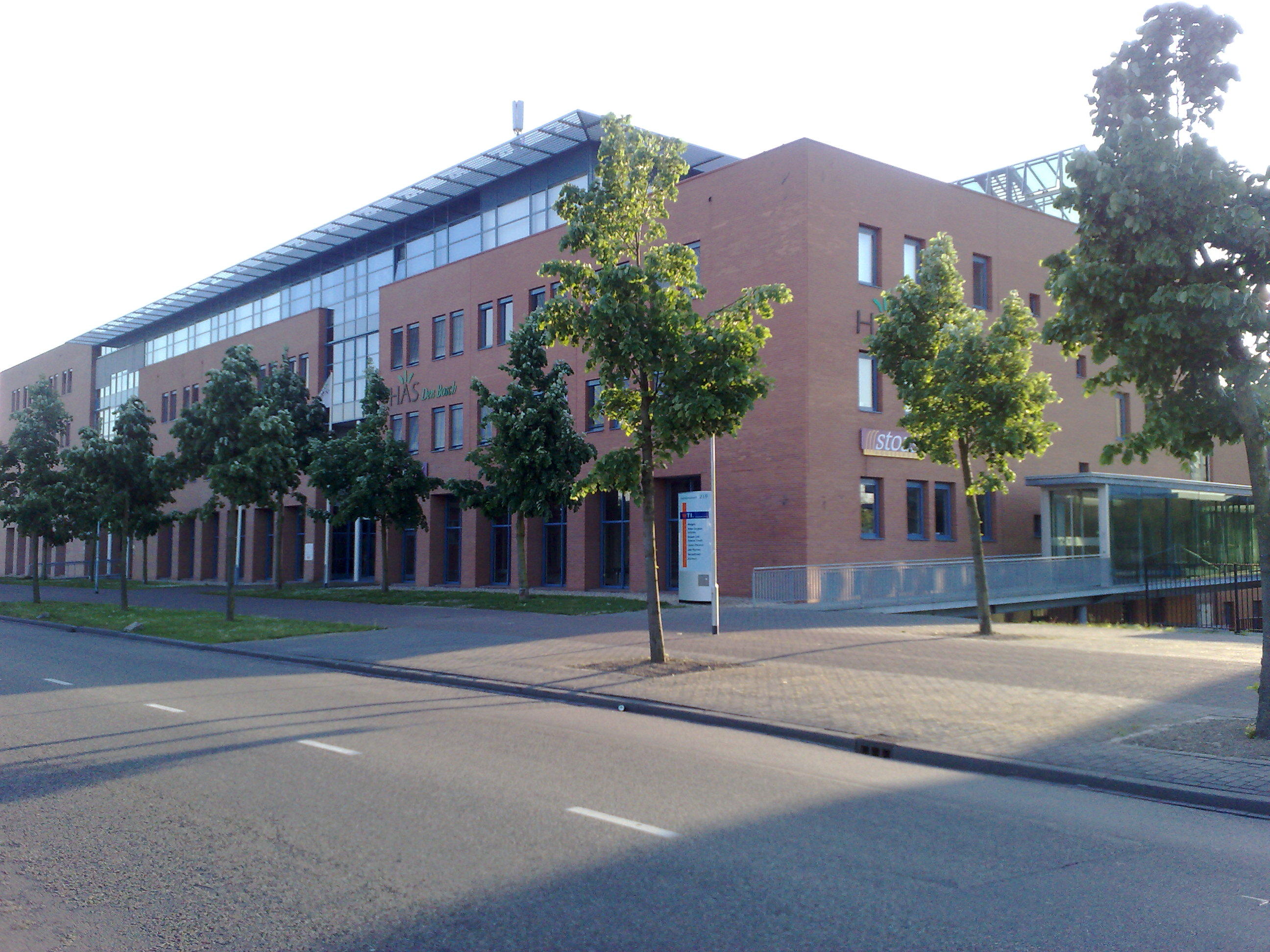 Part of HAS Den Bosch and Stoas Hogeschool, Onderwijsboulevard 221, 5223 DE 's-Hertogenbosch